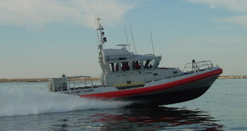 Photo of a U.S. Coast Guard response boat-medium during testing. This photo is the test model built by Marinette Marine, which is the contractor selected by the Coast Guard.